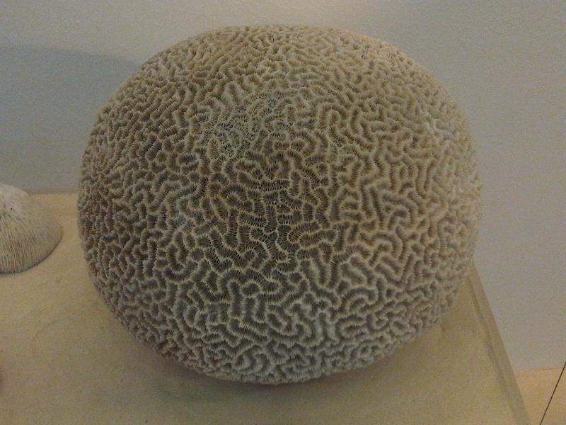 Platygyra sp. at the Natural History Museum in London, England.